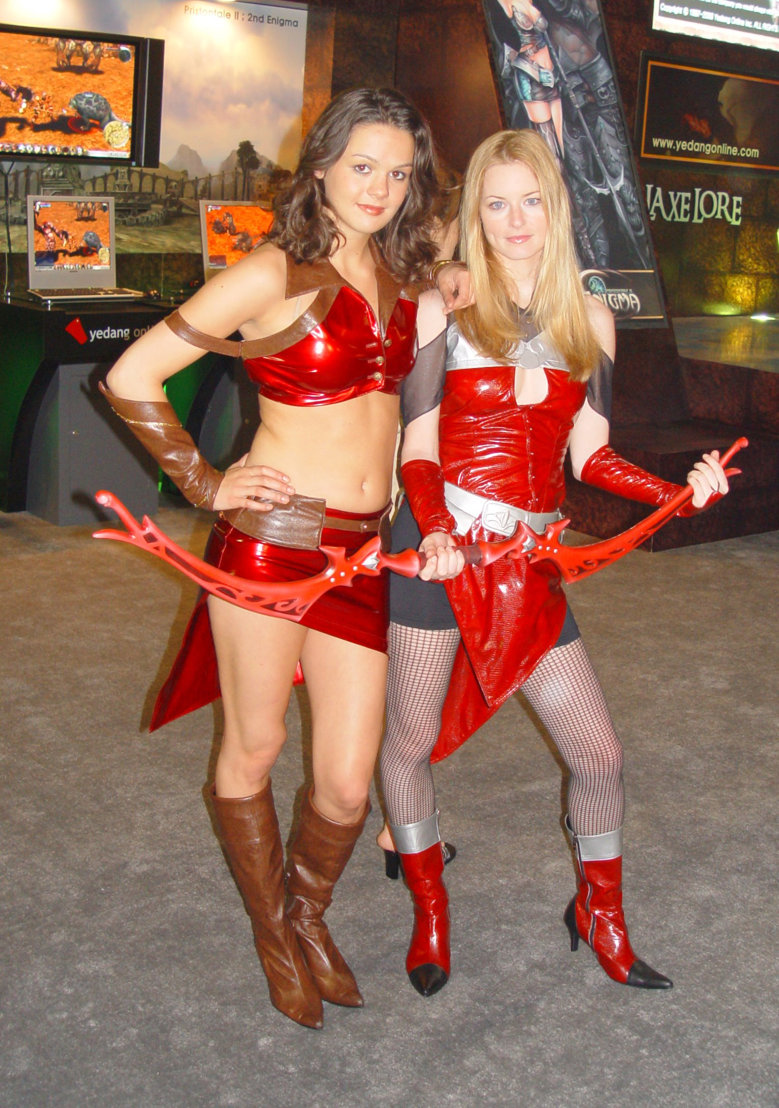 Booth Babes